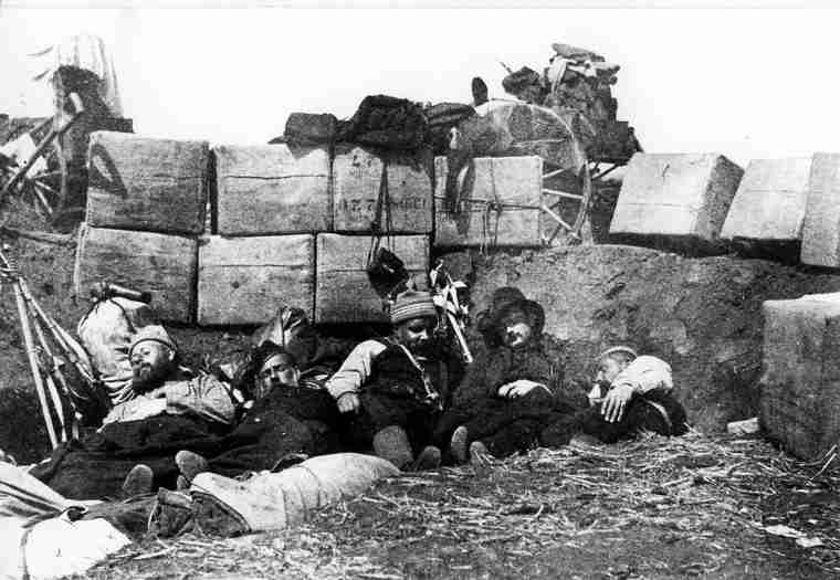 A zareba is an encampment used as a base of attack and defense. Image of a zareba at Batoche, showing soldiers sleeping behind walls of fortification. Visible are several Snider-Enfield rifles used by the soldiers.